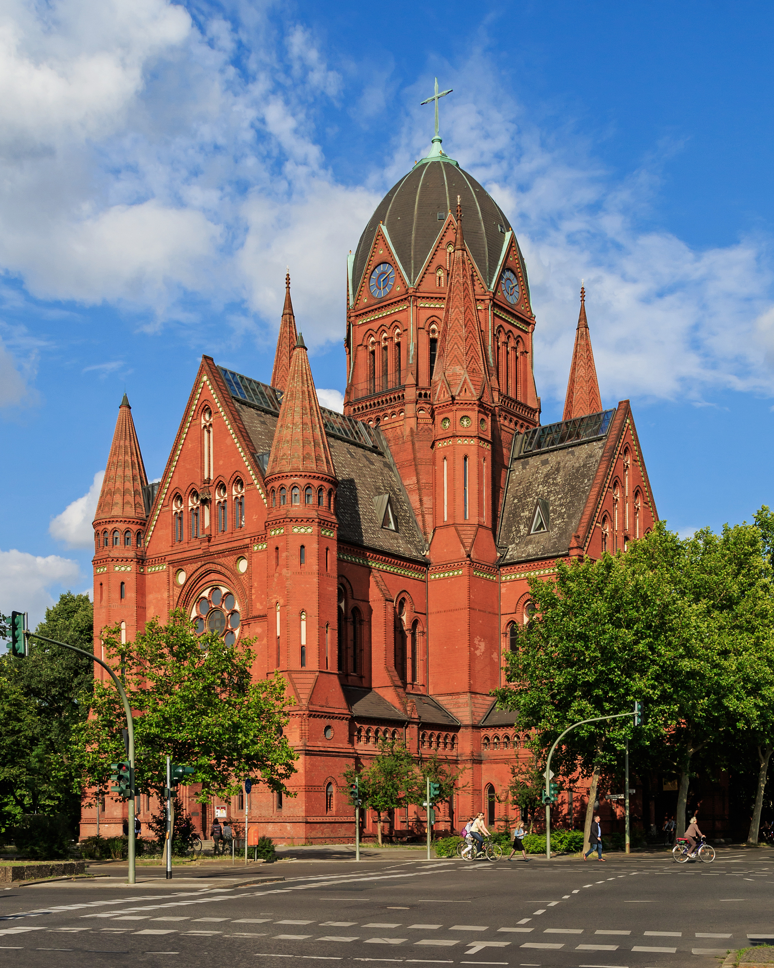 Holy Cross Church in Berlin-Kreuzberg